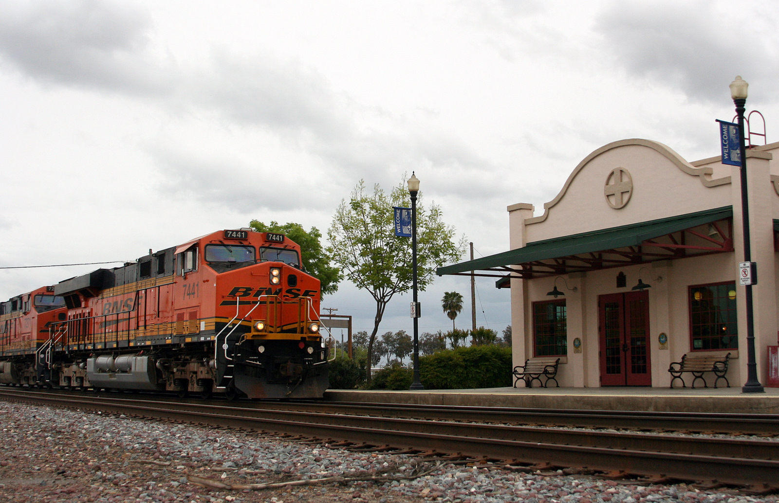 NB intermodal train passing the Amtrak station, Corcoran, California.